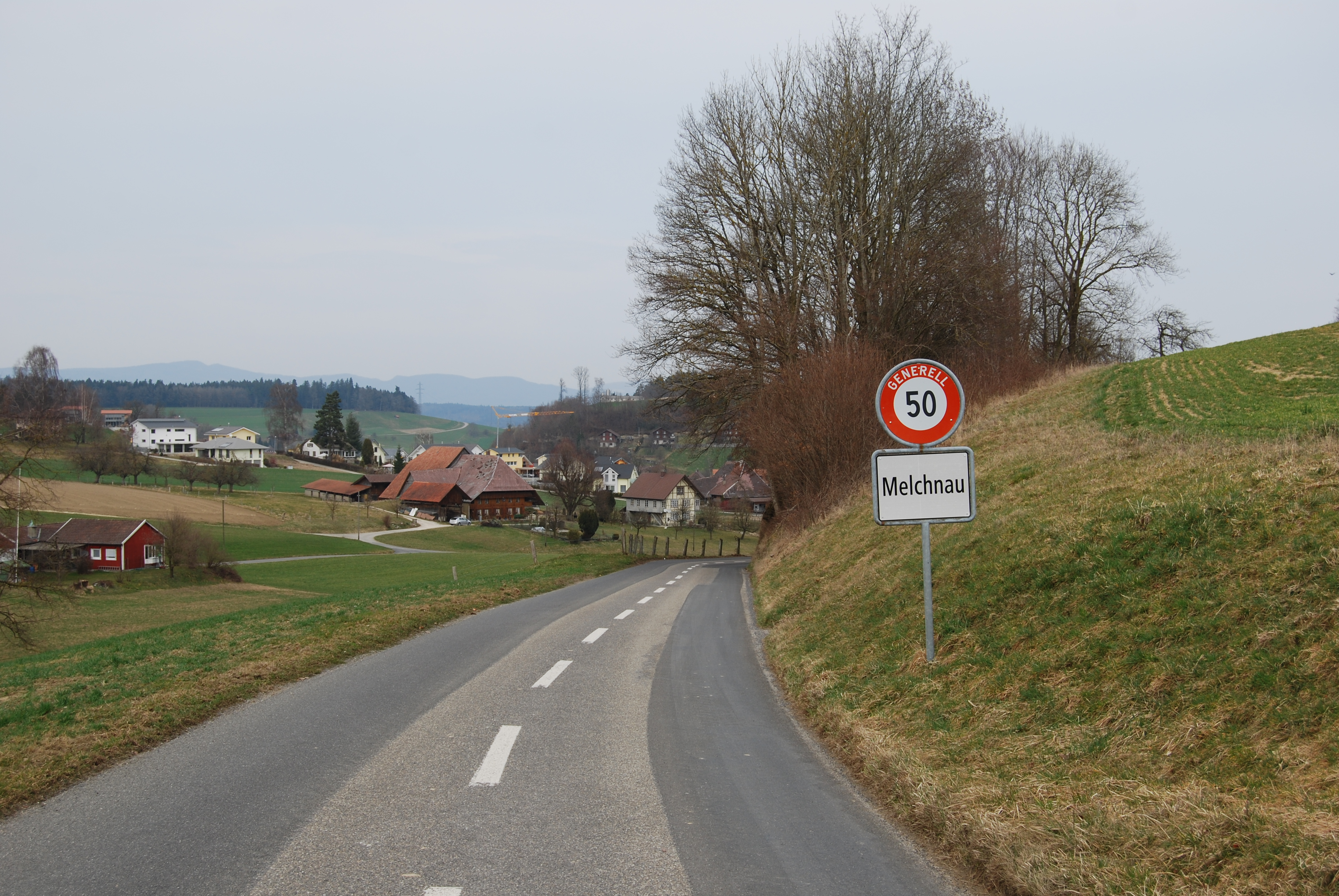 Melchnau, canton of Bern, SwitzerlandEsperanto: Melchnau, Kantono Berno, Svislando